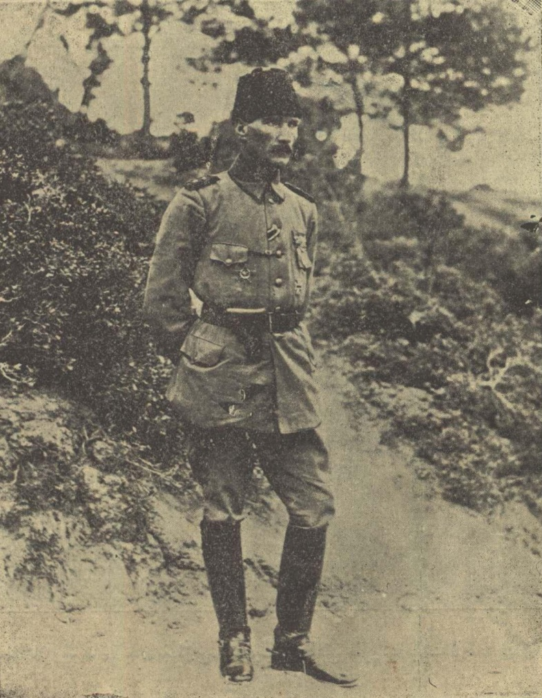 Mustafa Kemal Bey in the Gallipoli front